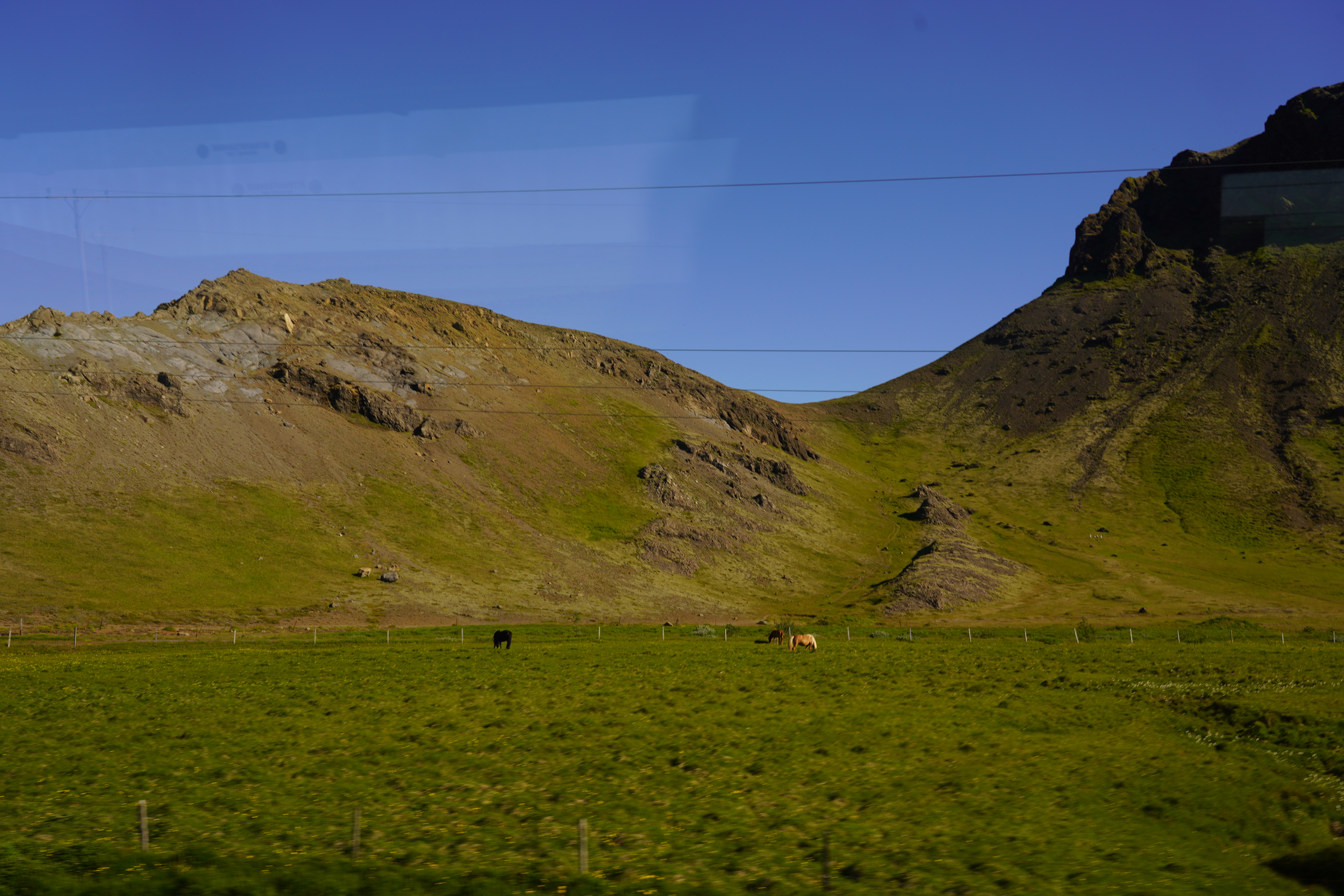 20190622_ThorsmorkHwy_7488